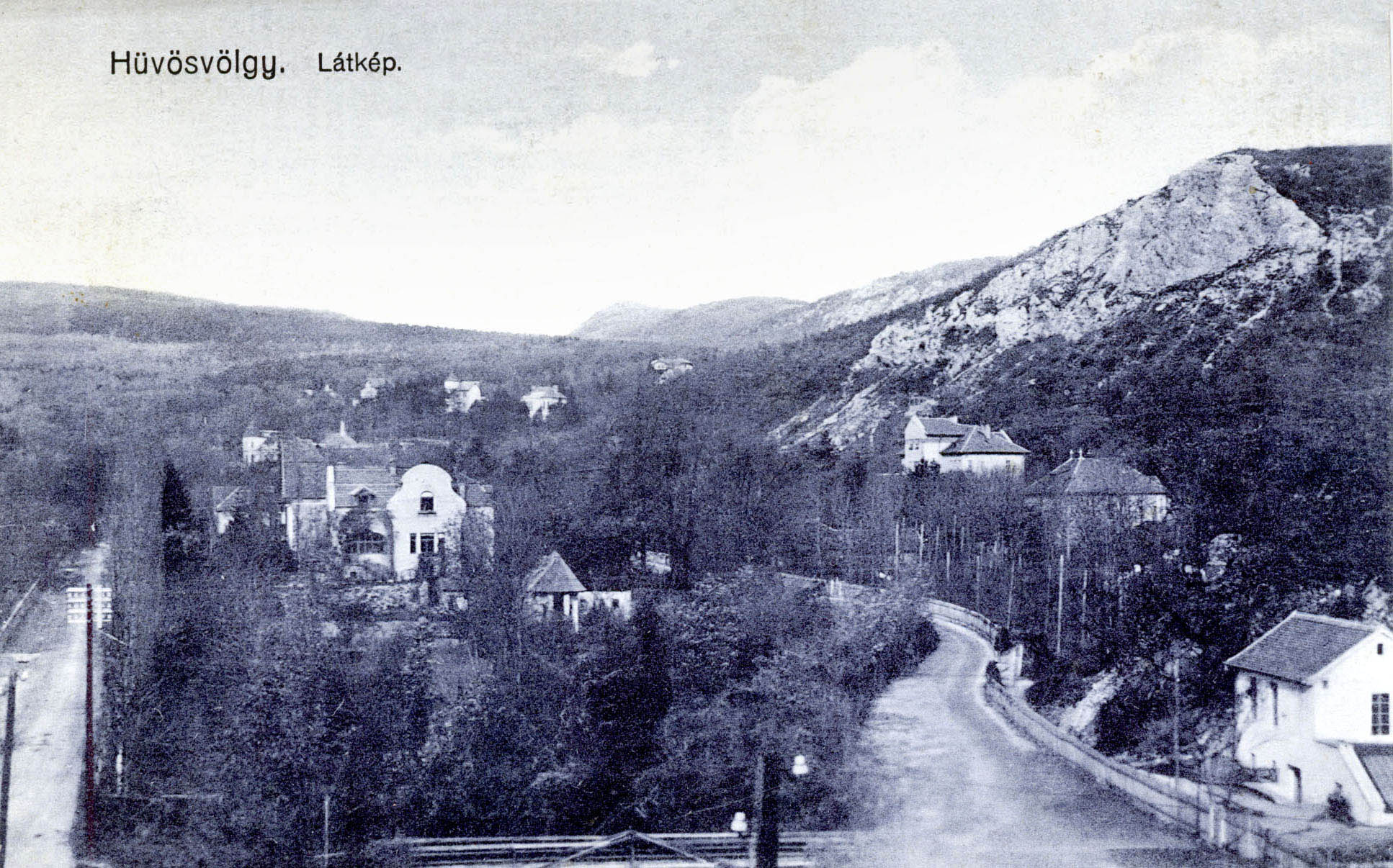 Hűvösvölgy, today part of the 2nd district of Budapest in 1923, photography taken at the tram station